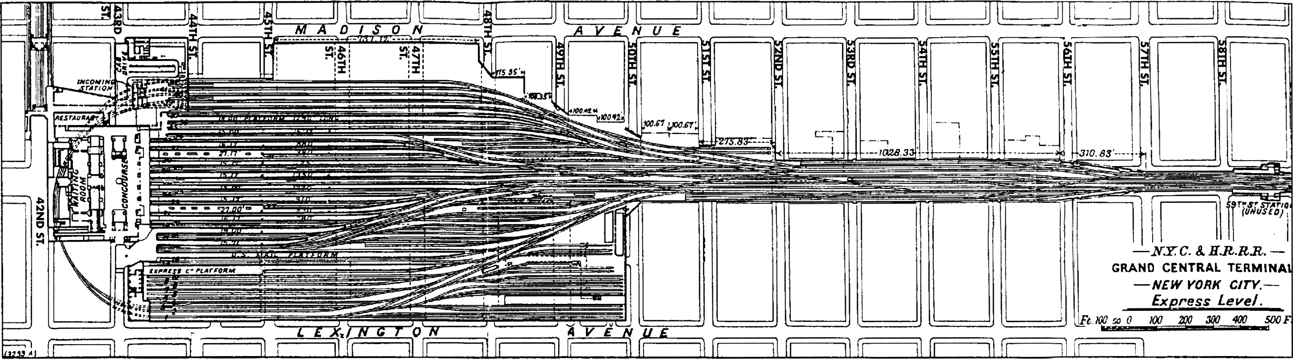 William J. Wilgus's Grand Central Terminal (New York City) upper (mainline) level track plans.